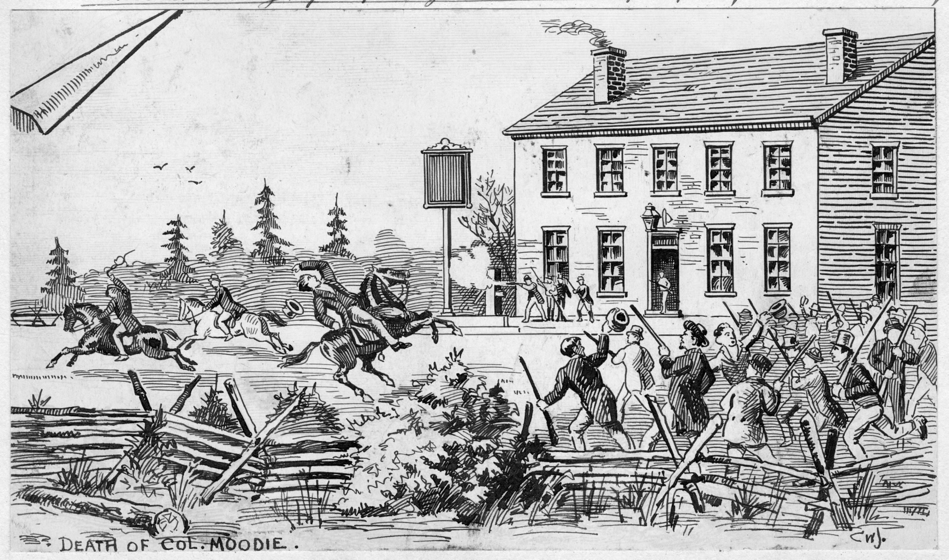 Pen and ink drawing by Charles Wm. Jefferys (1869-1952) showing the fatal shooting of Col. Robert Moodie outside John Montgomery's tavern in Toronto on December 4, 1837. This event is part of the Upper Canada Rebellion.